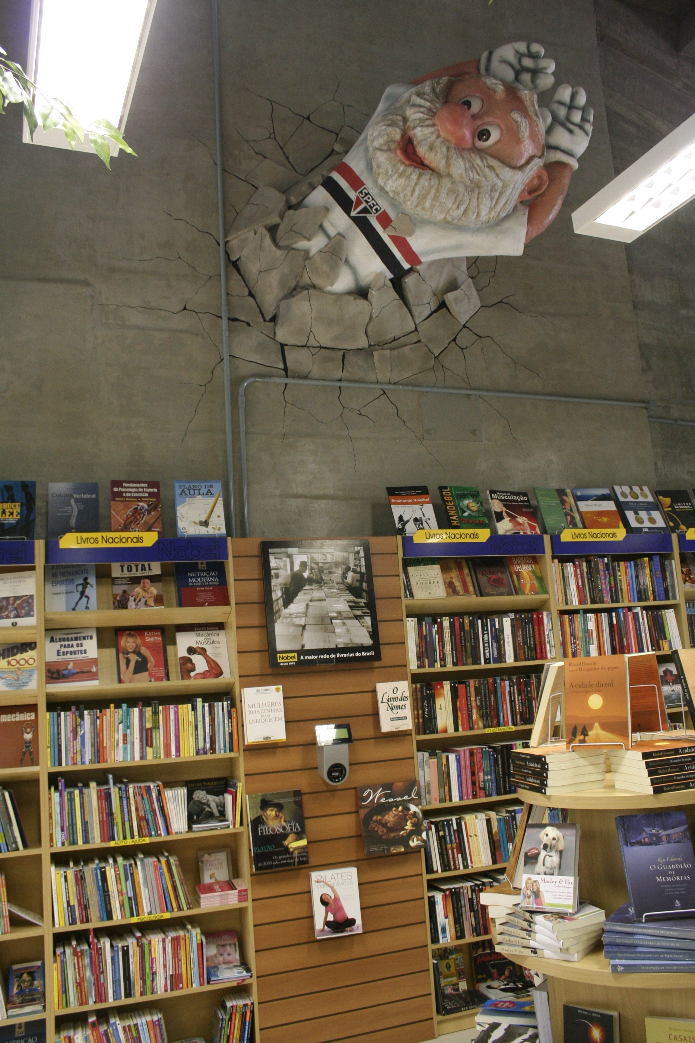 inside photo of the Nobel bookstore, located in the Morumbi Concept Hall.